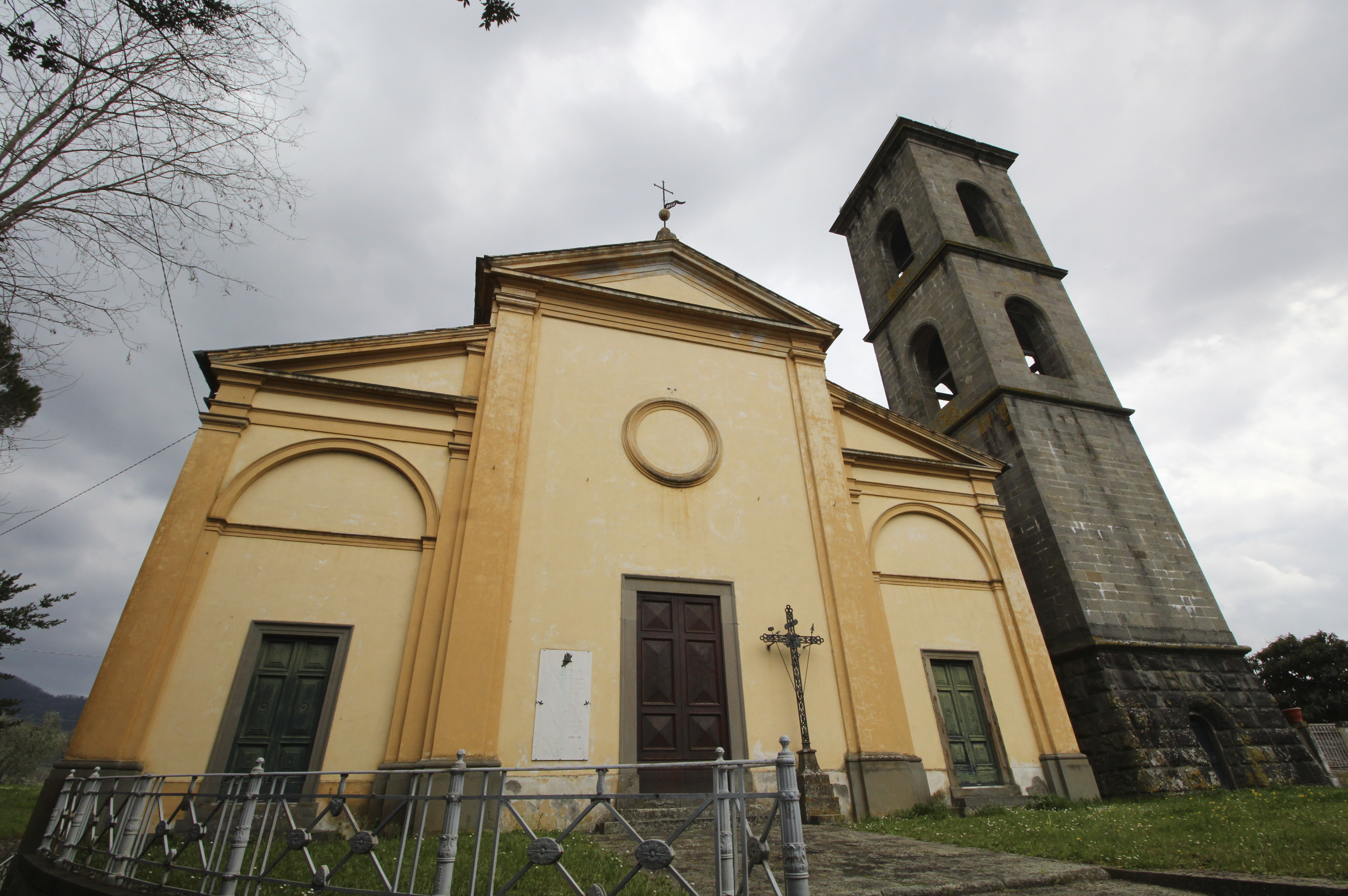 Church San Colombano di Segromigno, San Colombano, hamlet of Capannori, Province of Lucca, Tuscany, Italy